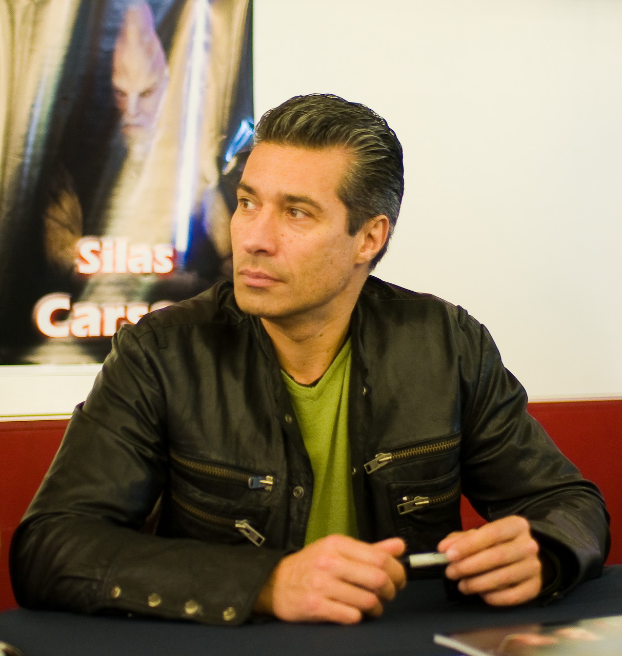 Silas Carson at F.A.C.T.S 2008, Gent, Belgium.